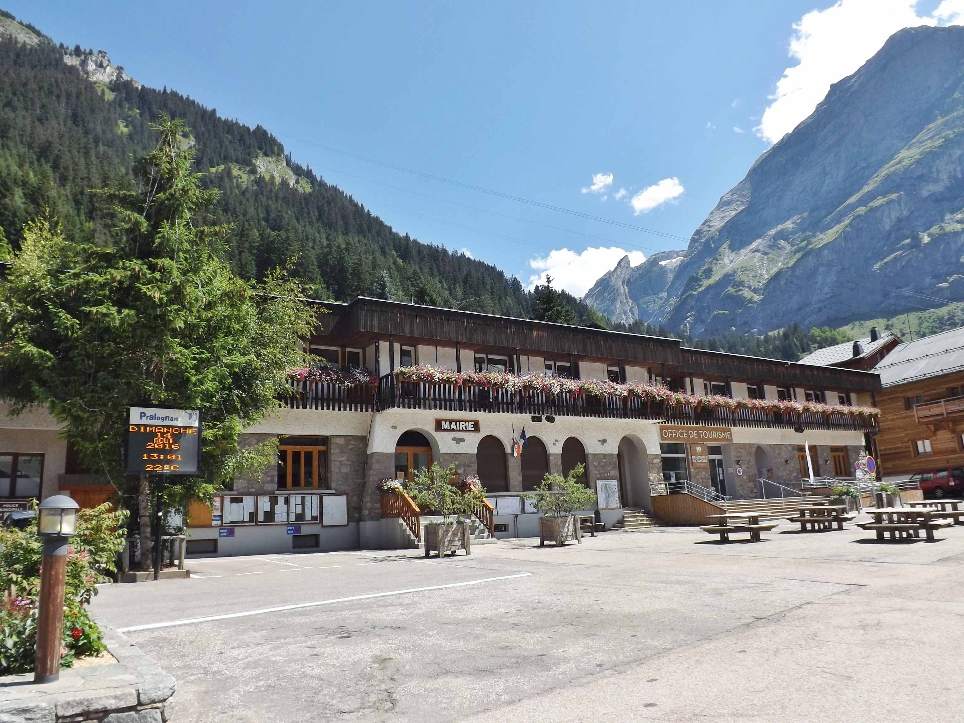 Sight of Pralognan-la-Vanoise town hall and tourism office building, in Savoie, France.